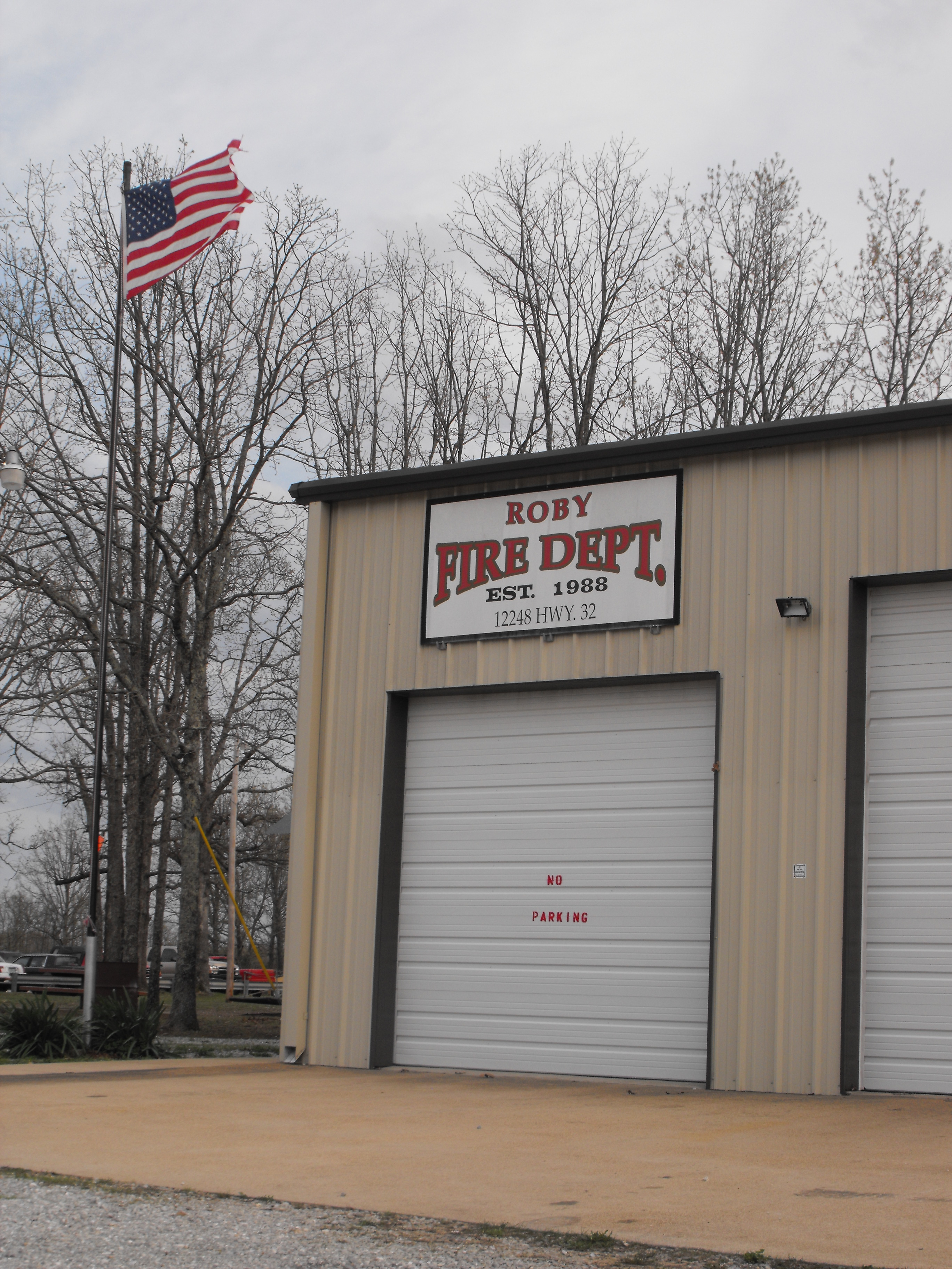 Photo of the front of the Roby, Mo., fire station